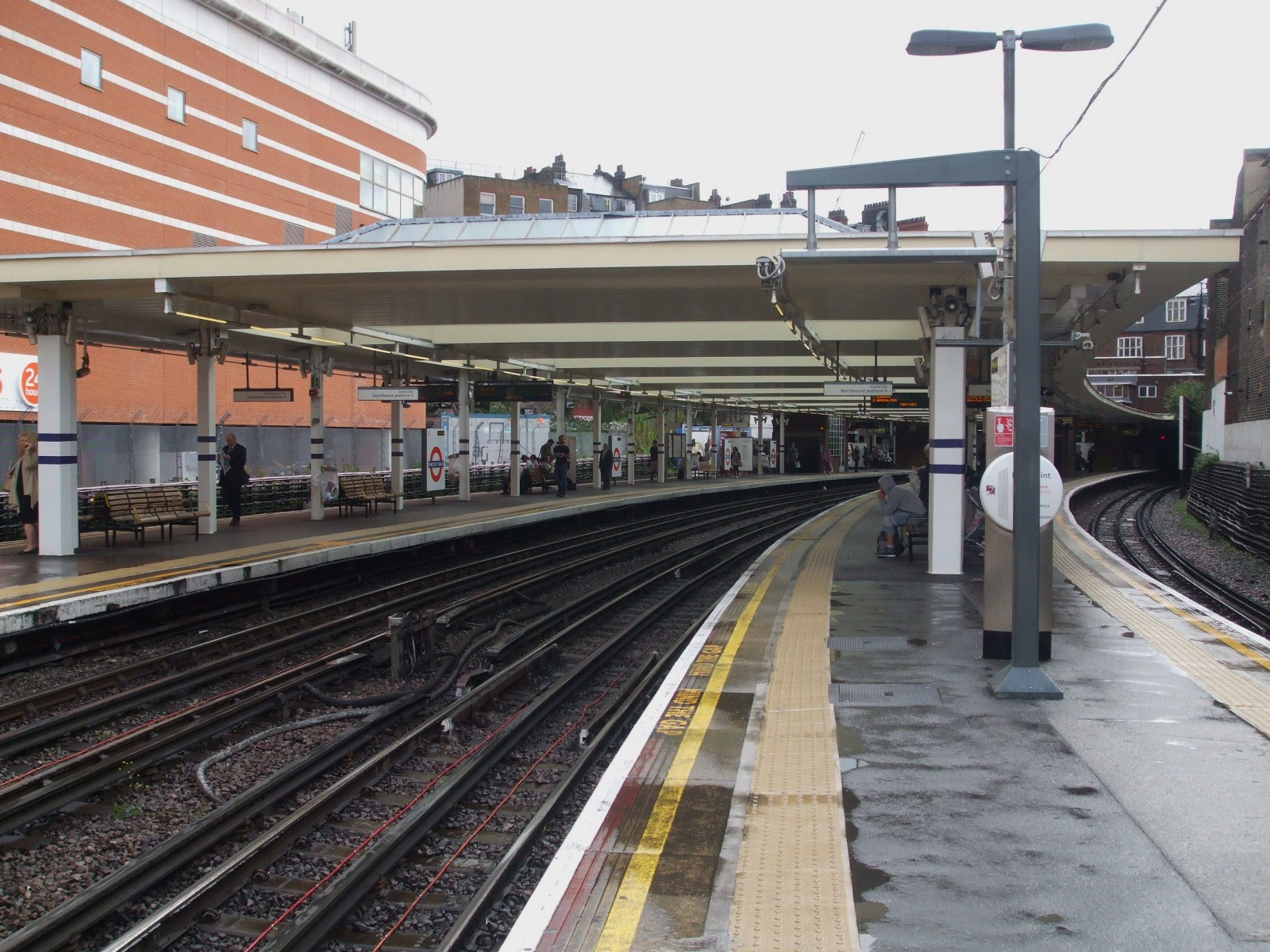 Finchley Road tube station northbound Jubilee platform looking south